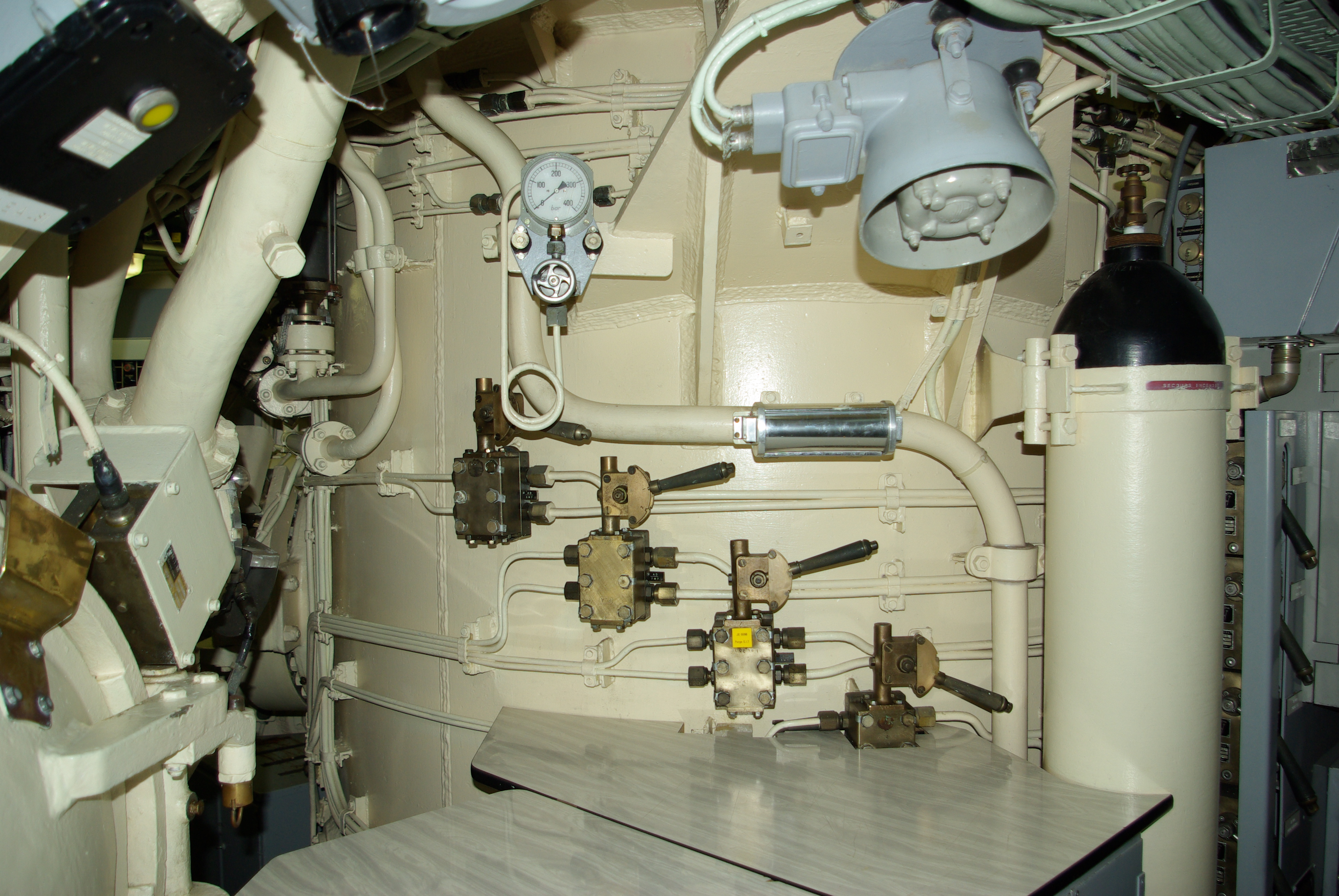 A missile silo for M20 of the submarine Le Redoutable.